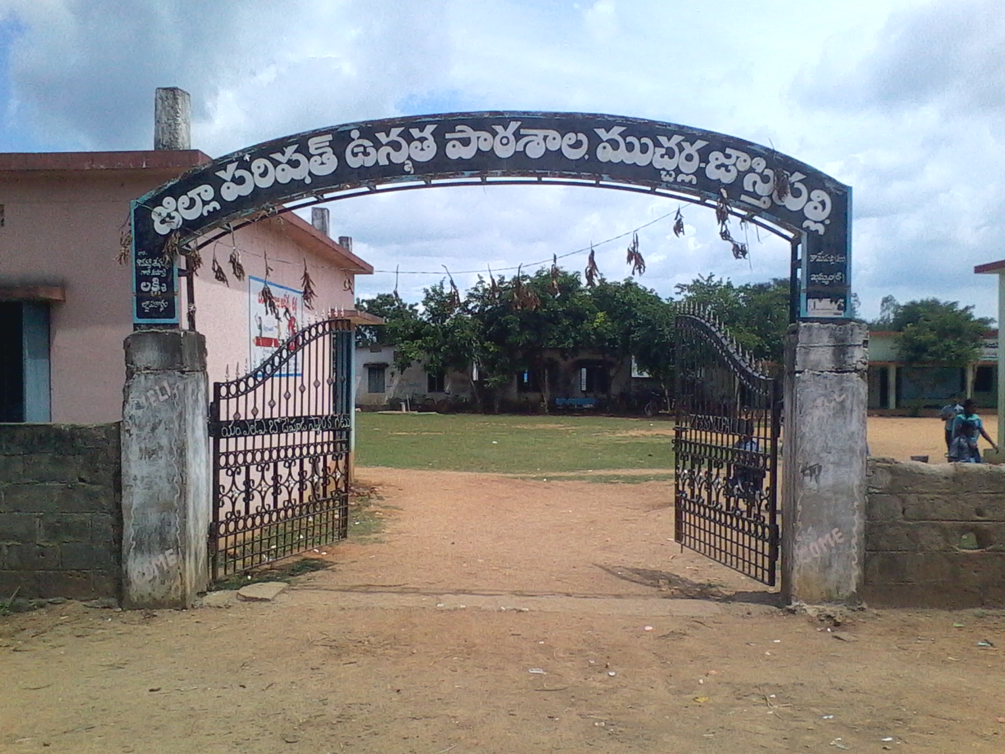 zpss school